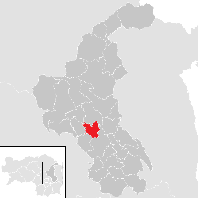 district Weiz